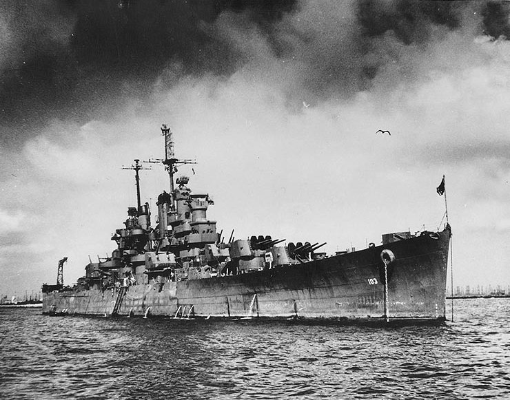 The U.S. Navy light cruiser USS Wilkes-Barre (CL-103) at anchor, probably at San Pedro, California (USA), circa 31 January 1946.